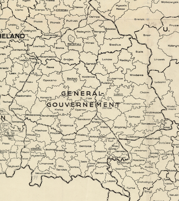 A section of an official nazi Map entitled: "Die Verwaltungseinteilung der deutschen Ostgebiete und des Generalgouvernements des besetzeten polnischen Gebiete nach dem Stande von Anfang Januar 1940".